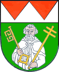 Coat of Arms of Günthersleben-Wechmar First upload in de-wp: Msommerlandt (15:42, 14. Mär. 2006)